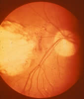 Severe, active retinochoroiditis by Toxoplasma gondii, Toxoplasmosis